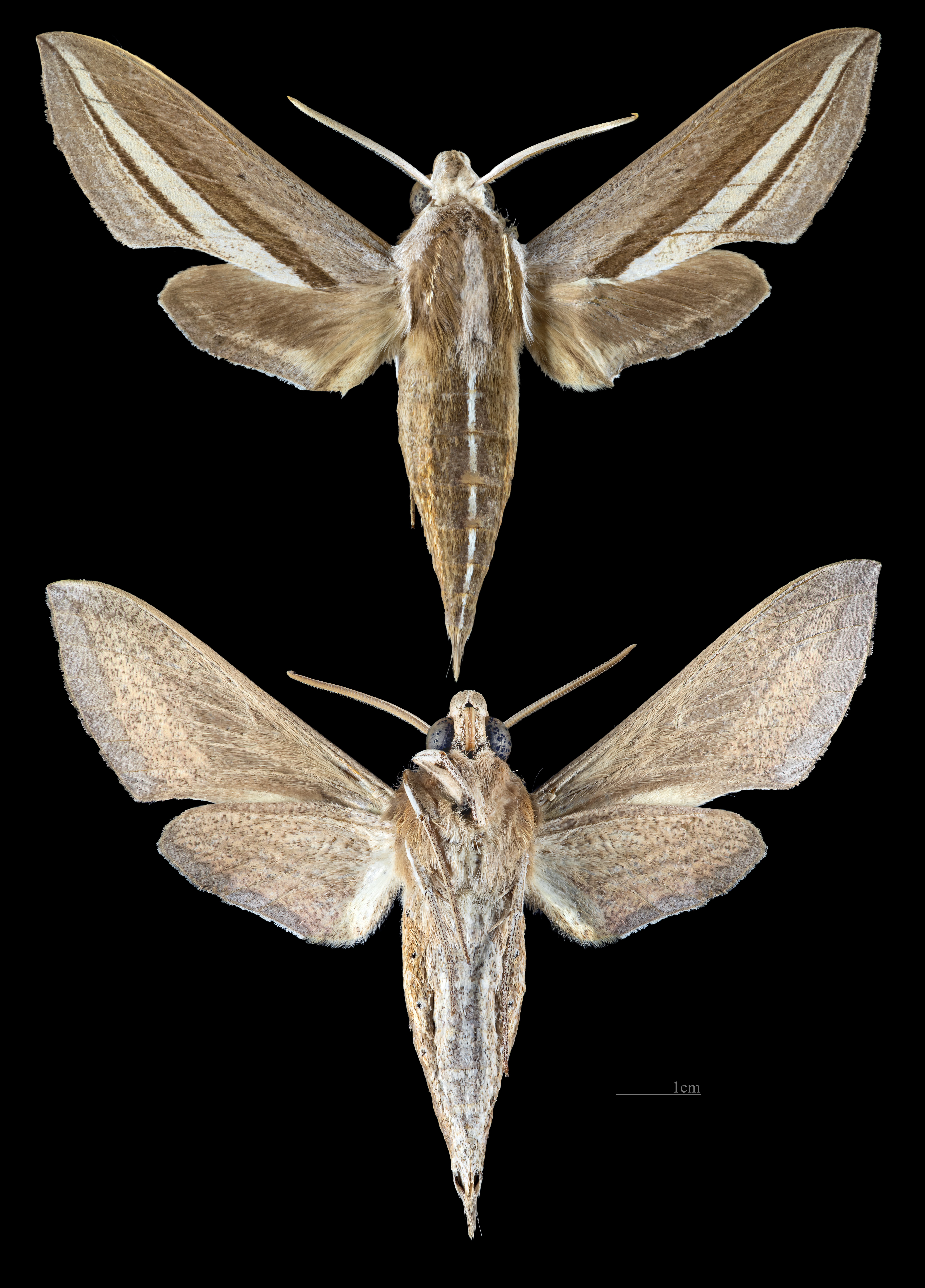 Theretra margarita - Two views of same specimen Collection of the Mathematician Laurent Schwartz